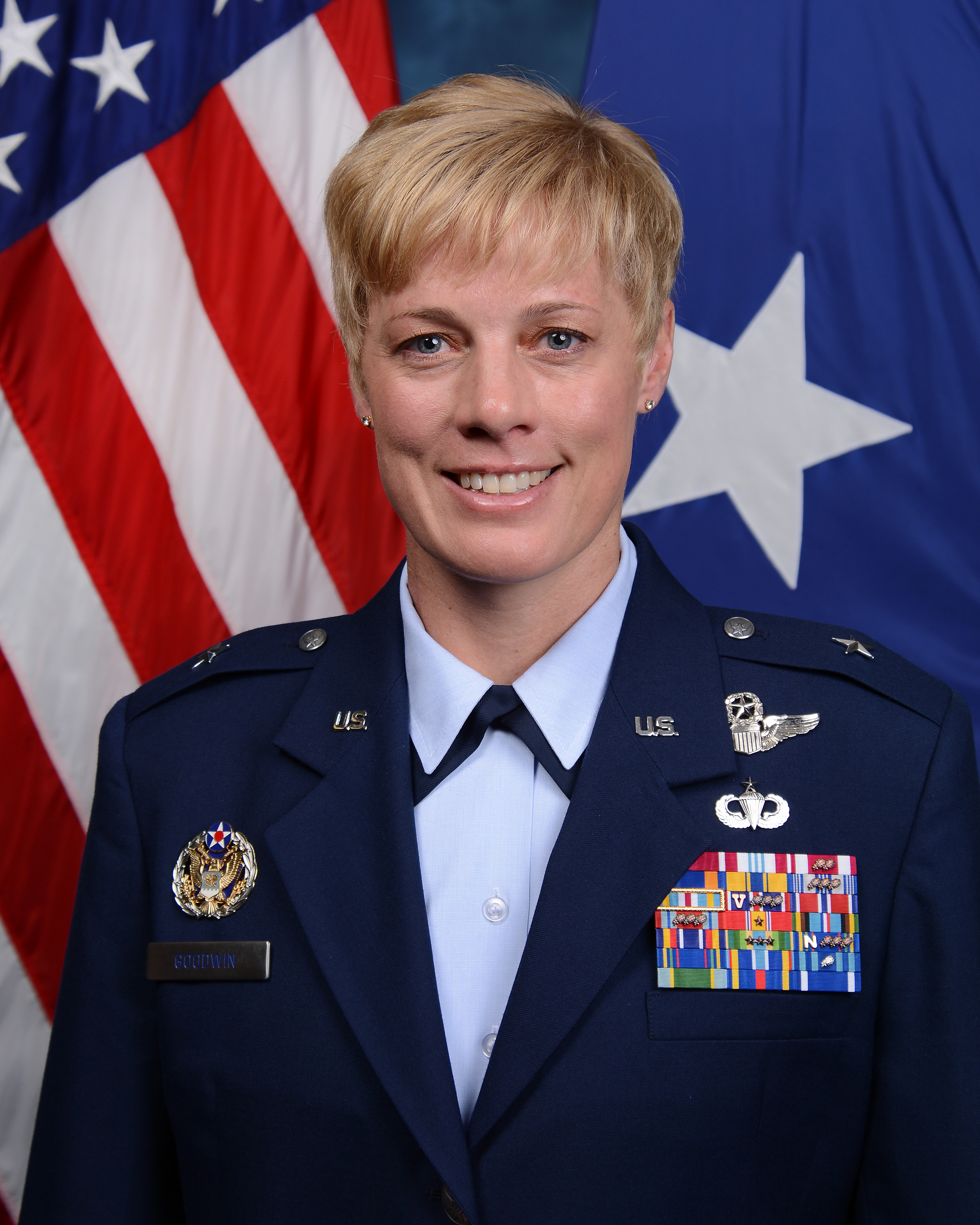 Brig. Gen. Kristin E. Goodwin